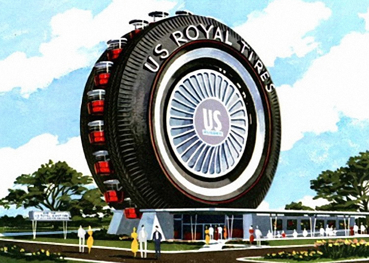 Watercolor illustration of the U.S. Rubber Co's (US Royal Tires) "Giant Tire" Ferris Wheel at the 1964 New York World's Fair